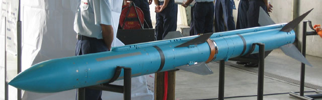 Japanese Air-to-air missile Mitsubishi AAM-4